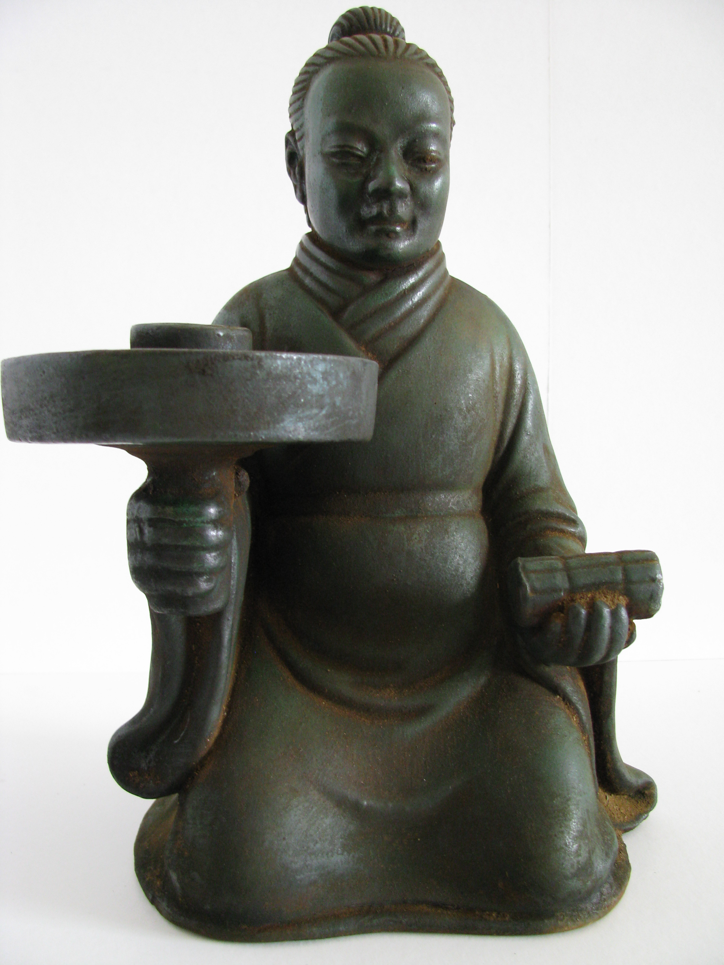 Southern Dynasty era candlestick holder